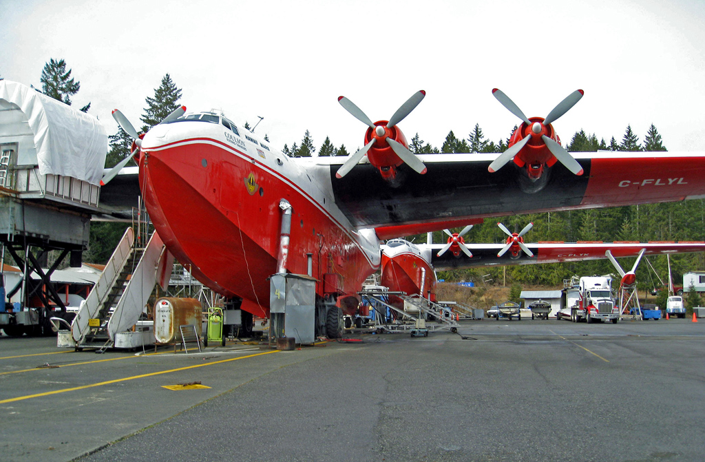 Martin JRM-3 Mars C-FLYL "Hawaii Mars" of Coulson Flying Tankers under overhaul at Sproat Lake, BC.